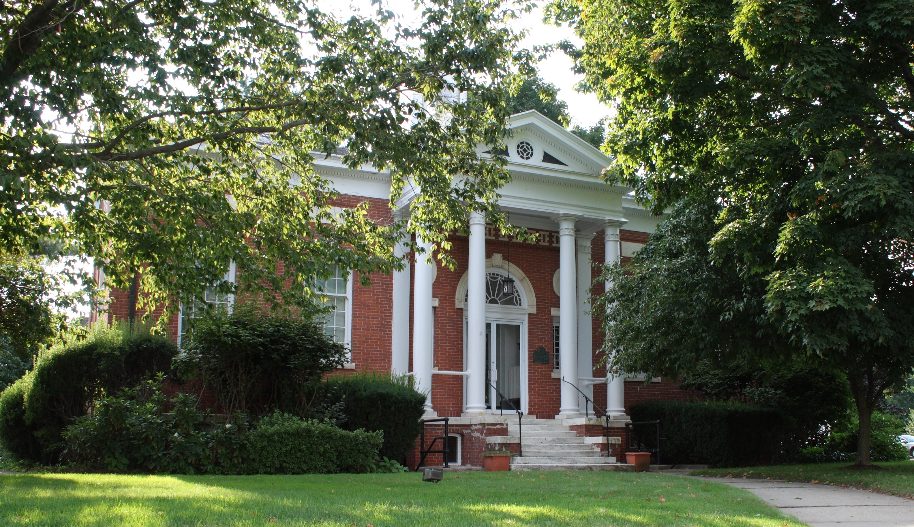 7 N. Main St., the site of the old Noah Webster Memorial Library in West Hartford Connecticut and a Registered Historic Place.